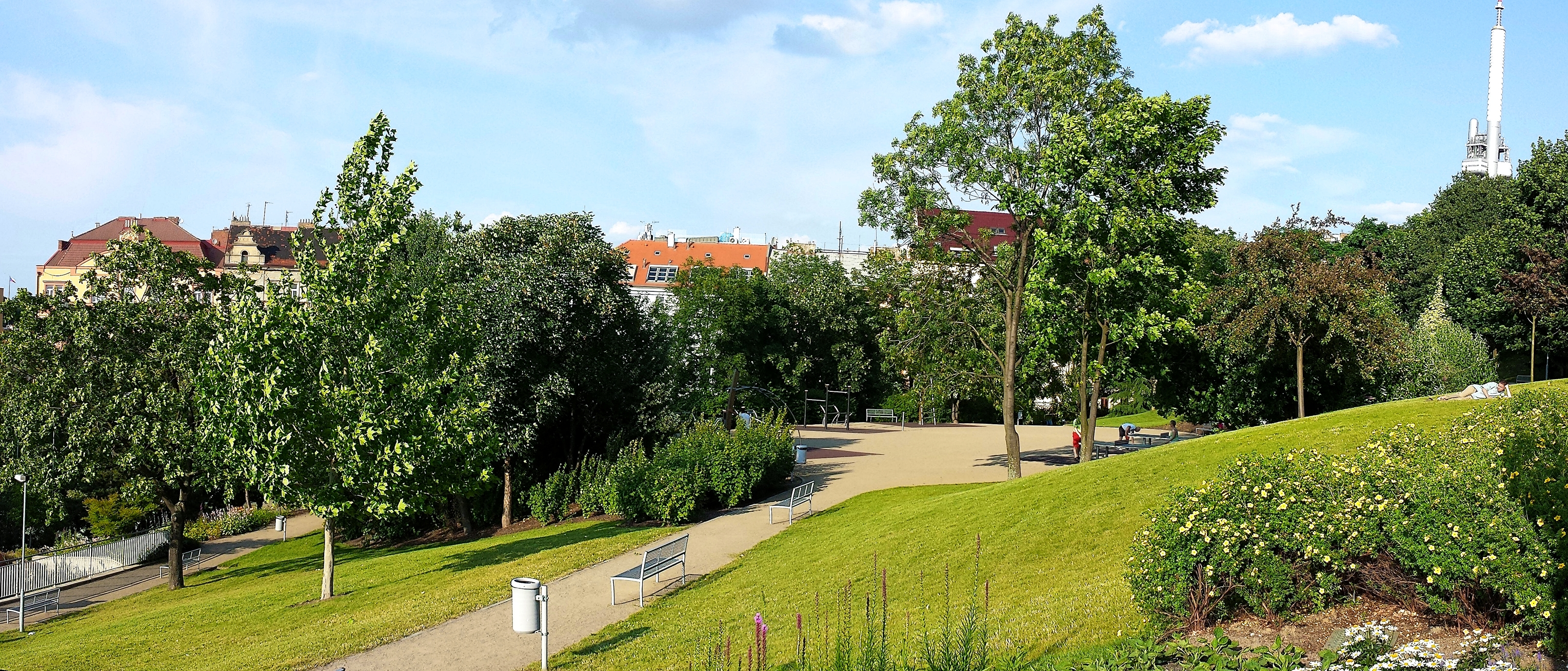 Rajská zahrada (Prague, Czechia).